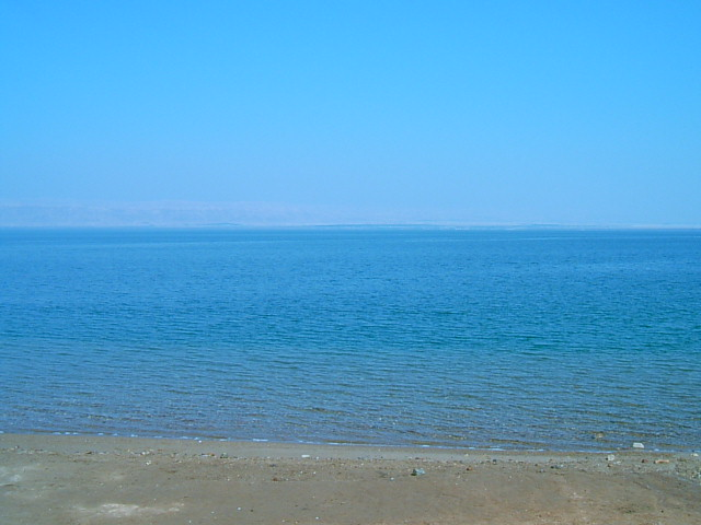 Dead Sea in Jordan.